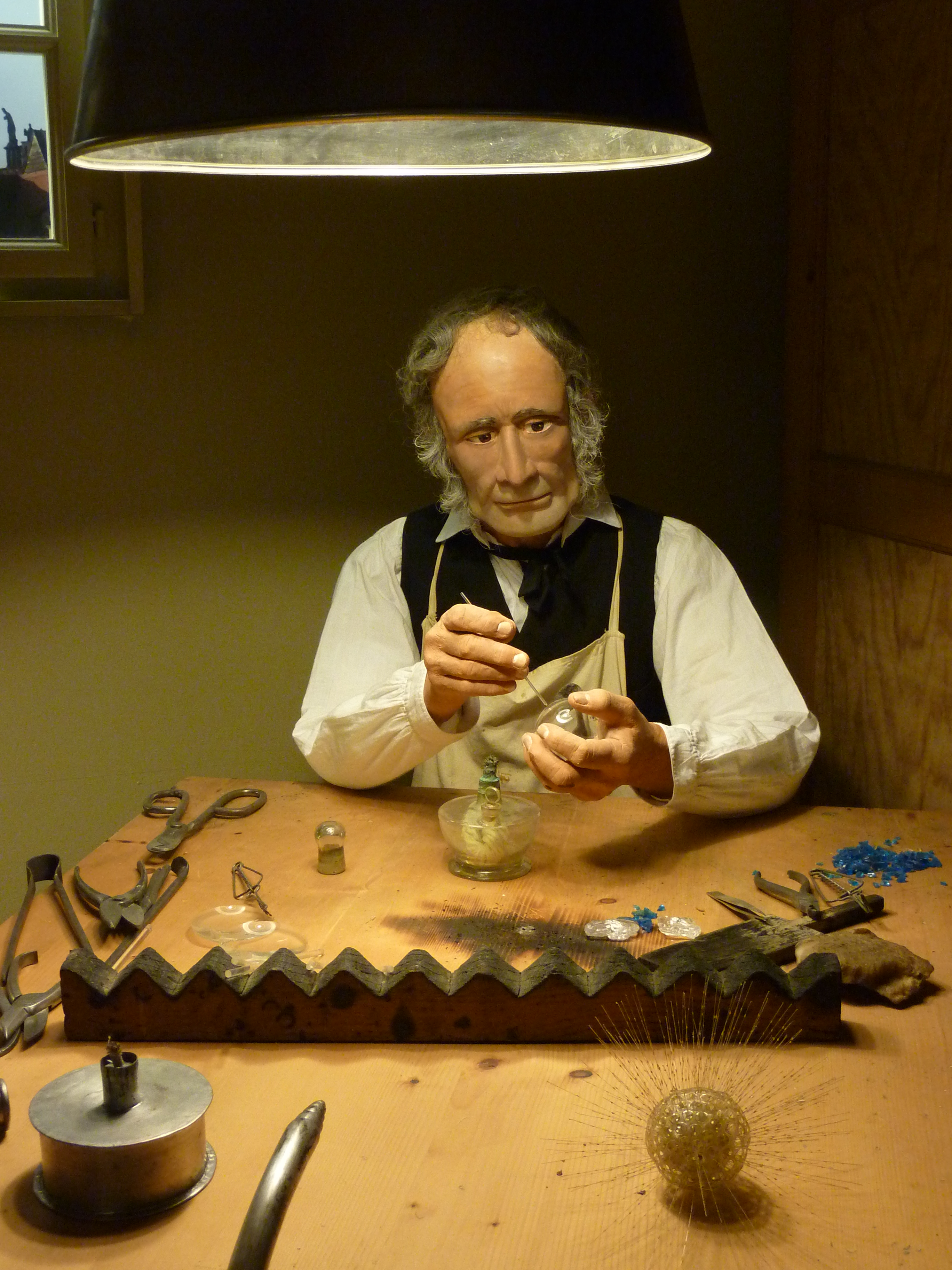 Leopold Blaschka working - Natural History Museum of Geneva